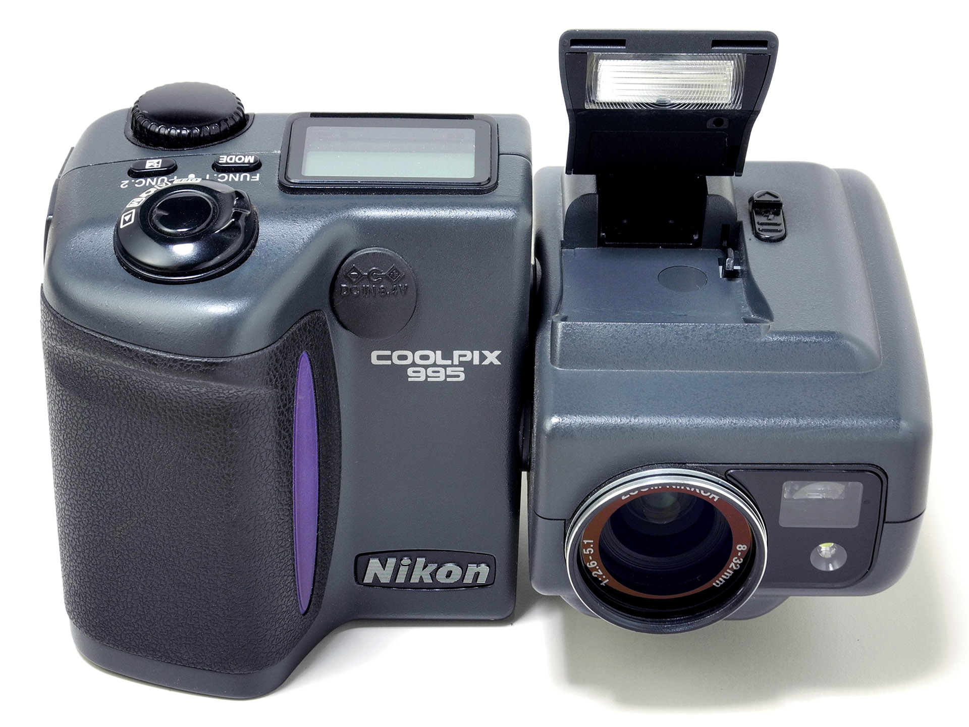 Nikon Coolpix 995